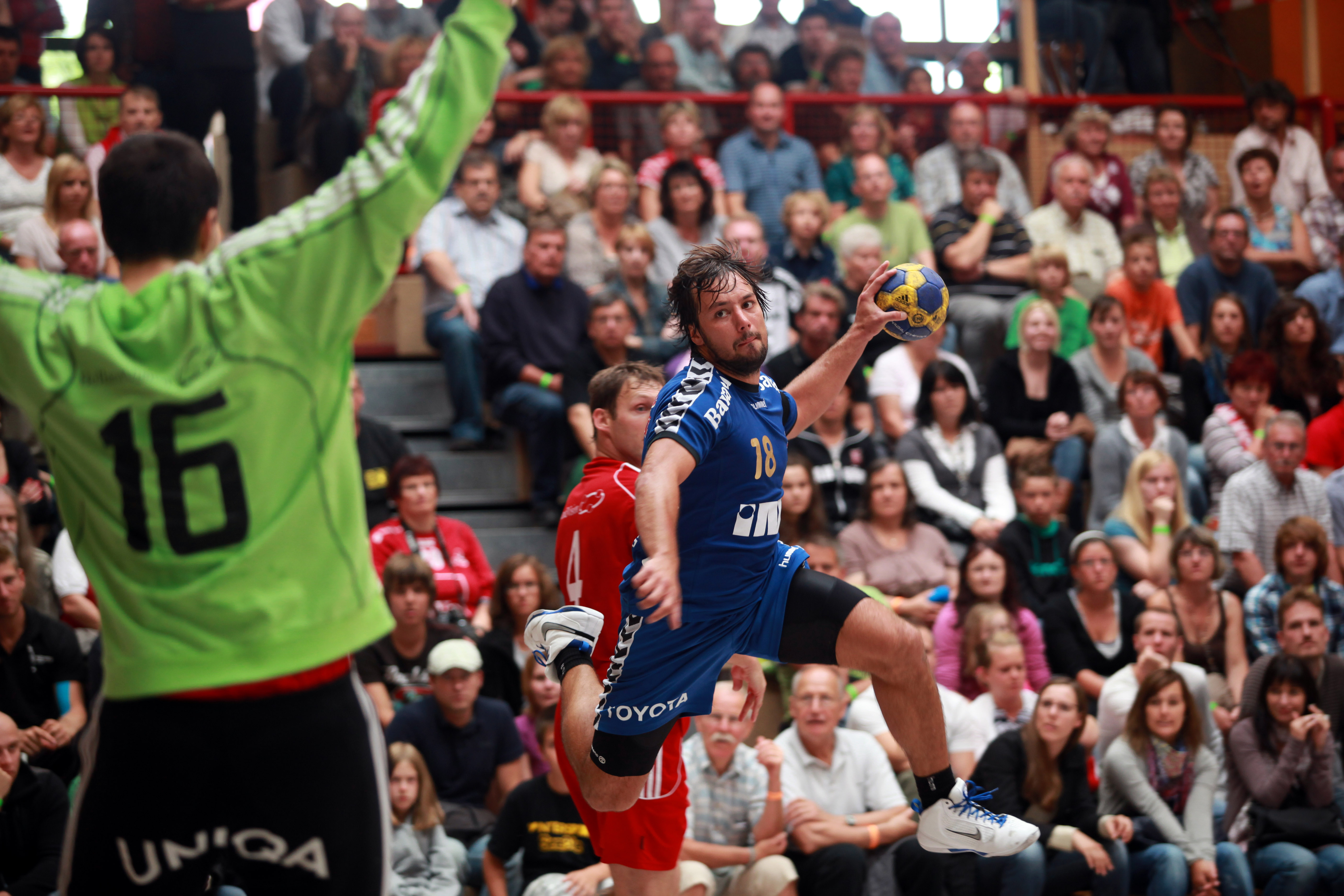 Zlatko Horvat, Croatian handball player, on August 14th, 2010 in Ehingen (Germany), during the Schlecker Cup 2010.